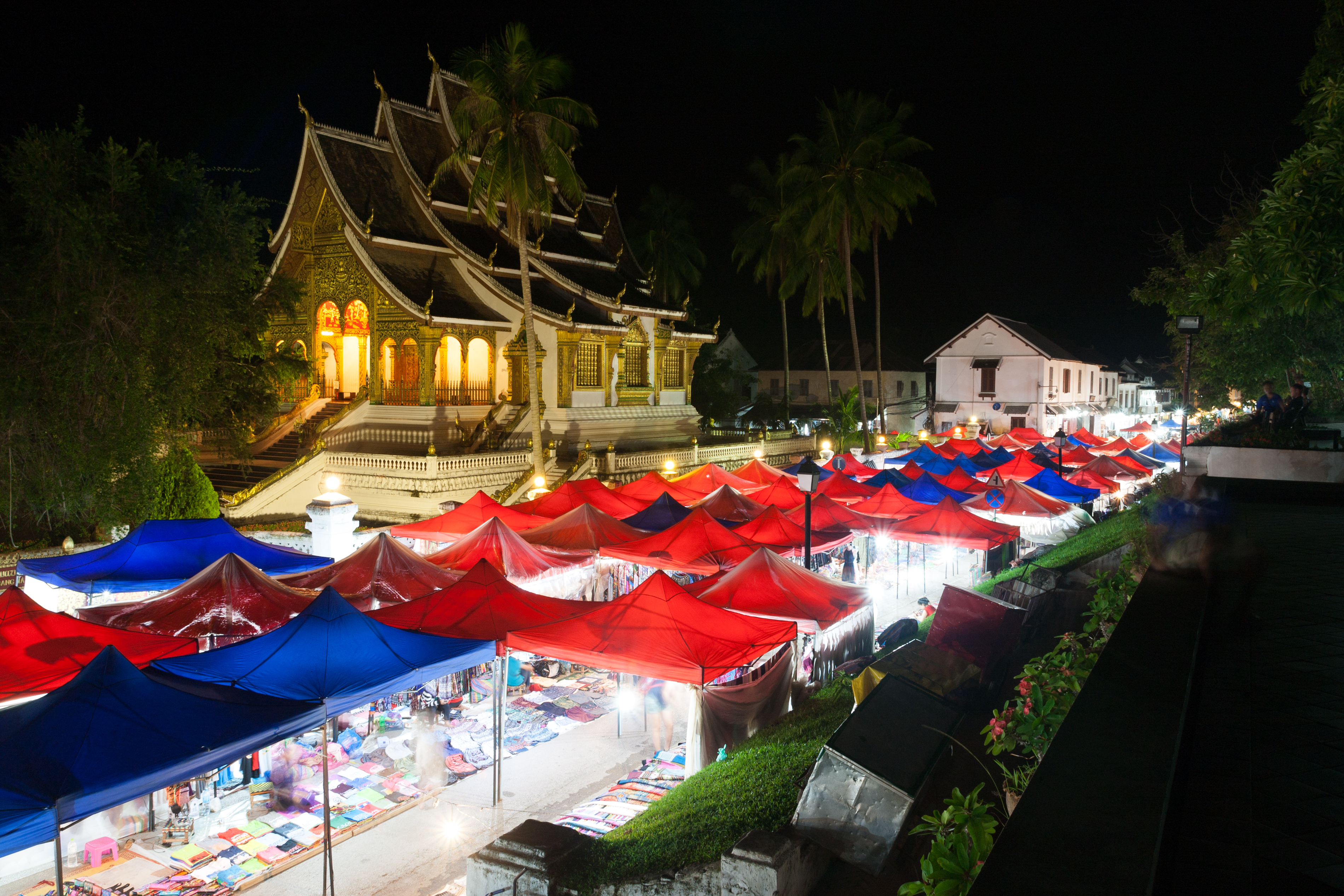 Night market in Luang Prabang, Laos